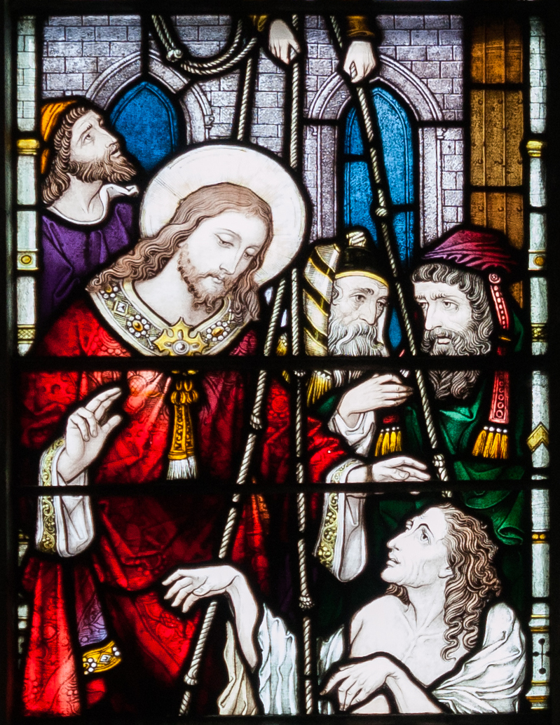 Detail of the left light of the fourth stained glass window in the south aisle (counting from west to east, not counting the mortuary chapel), depicting how the sick of the palsy in Capernaum is cured by Jesus, see Mark 2:1–12